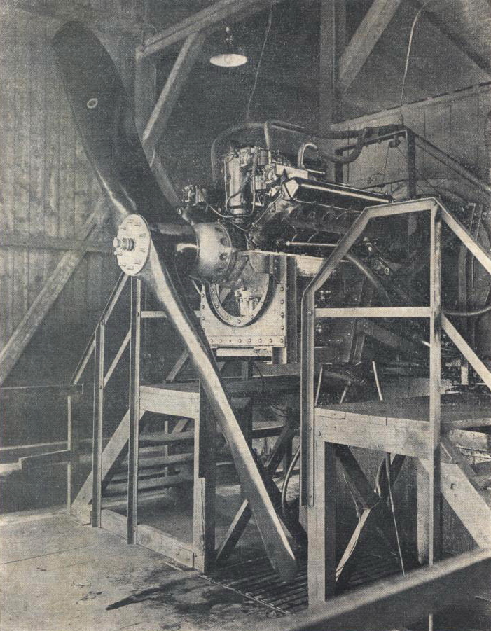 Škoda L aircraft engine.